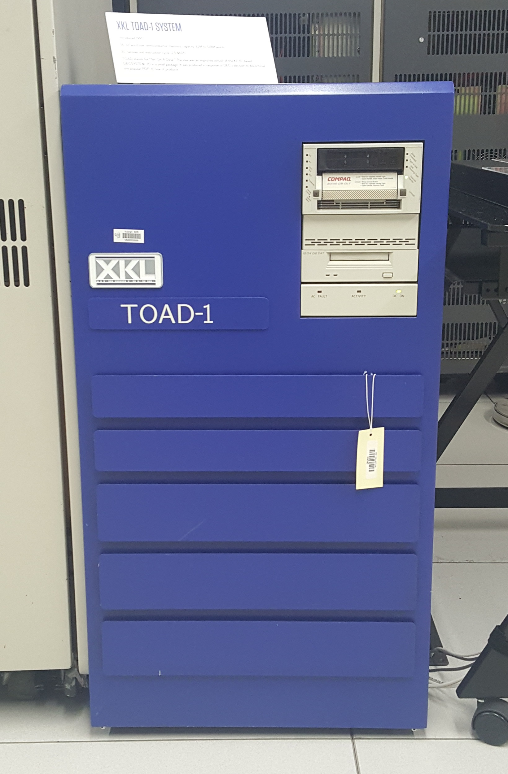 XKL Toad 1